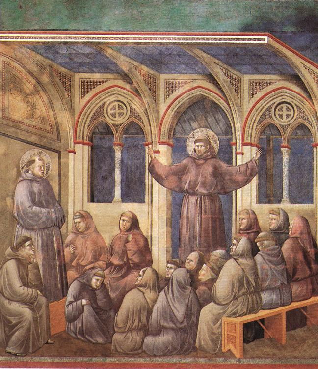 Legend of St Francis